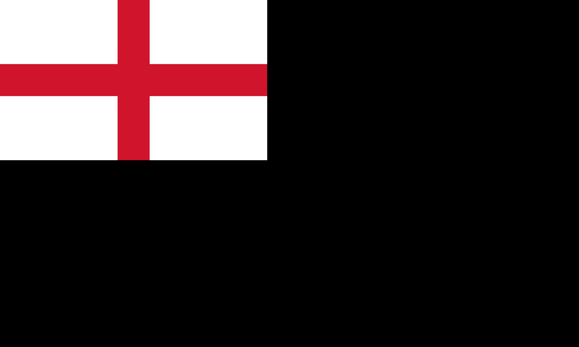 Banner of English Mistery. A patriotic origanisation who proposed a "Masculine Renaissance", expousing an ultra-reactionary, aristocratic Toryism with an addition reference to Nietzsche, elitism and eugenics.